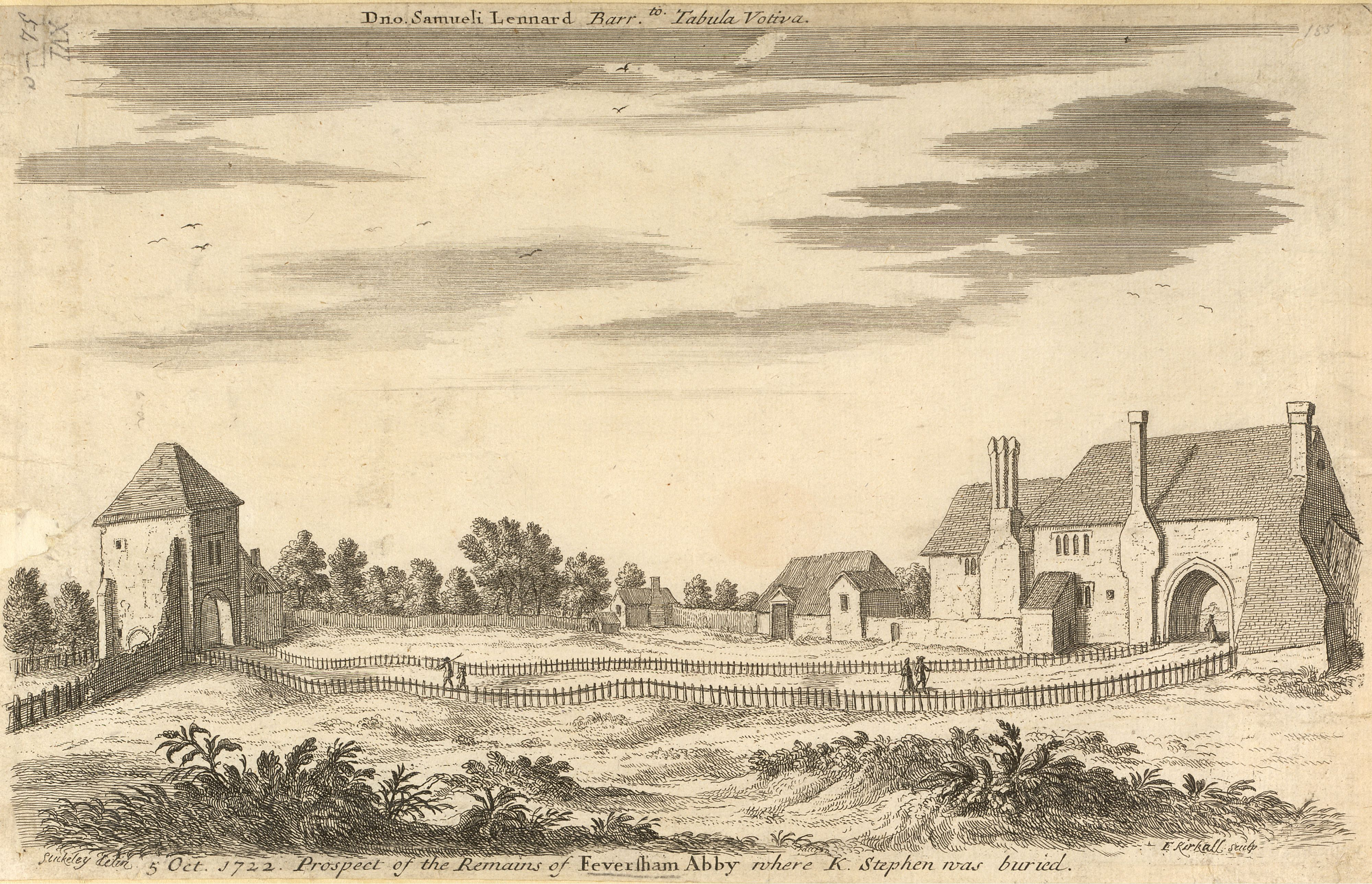 This view of Faversham Abbey was made by William Stukeley and engraved by Elisha Kirkall. It was published in 1722. Medium: Engraving (176×274mm) British Library Shelfmark: Maps K Top 16.54.a